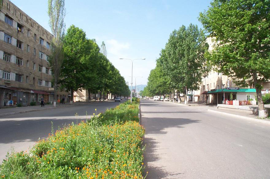 View down a main road in Stepanakert, Karabakh.